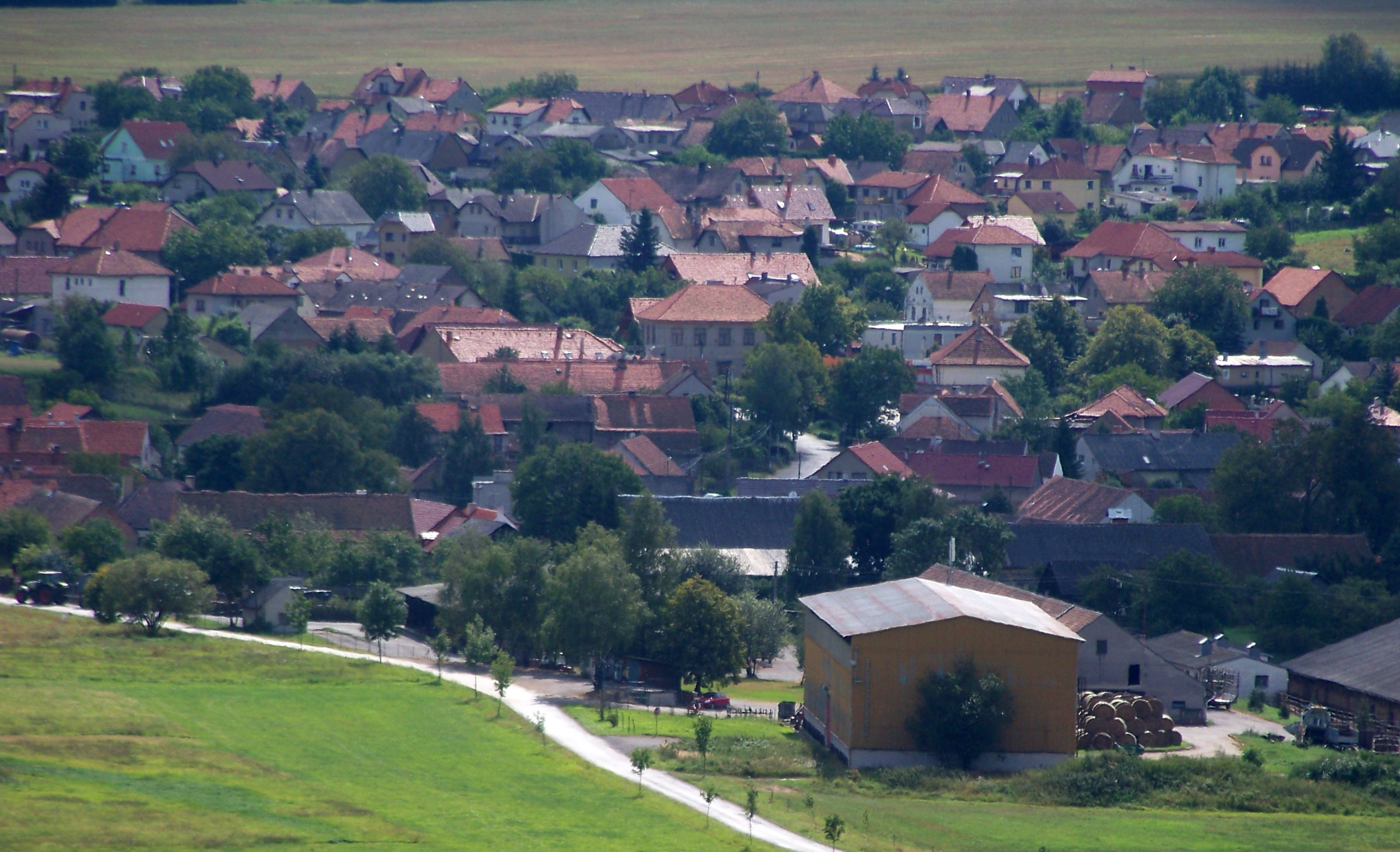 Rakovník District and Beroun District, Central Bohemian Region, the Czech Republic. A views of village of Broumy from Špička Hill. - Google Maps - Google Earth